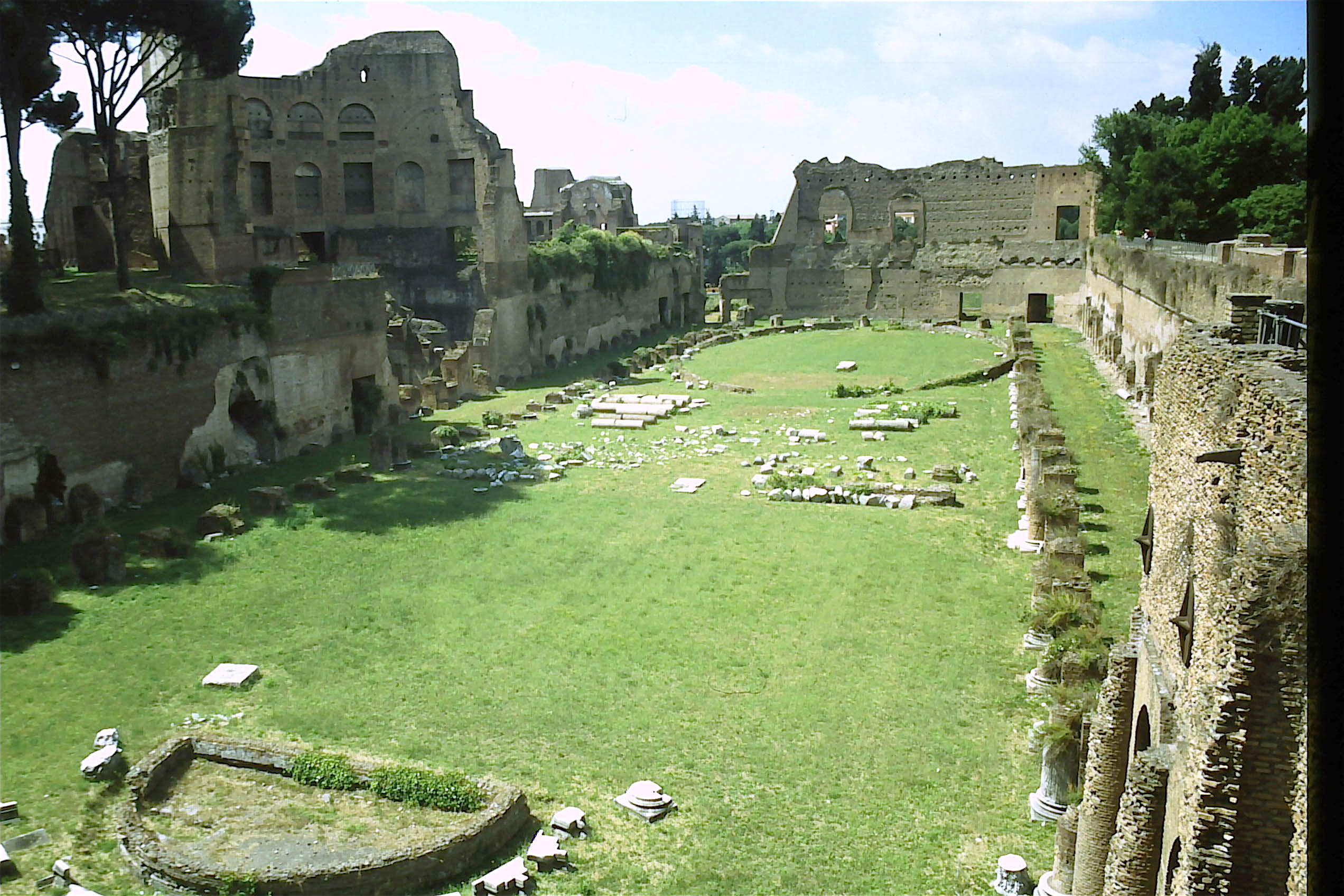 Garden or "stadium" of the Palace of Domitian, Palatine hill